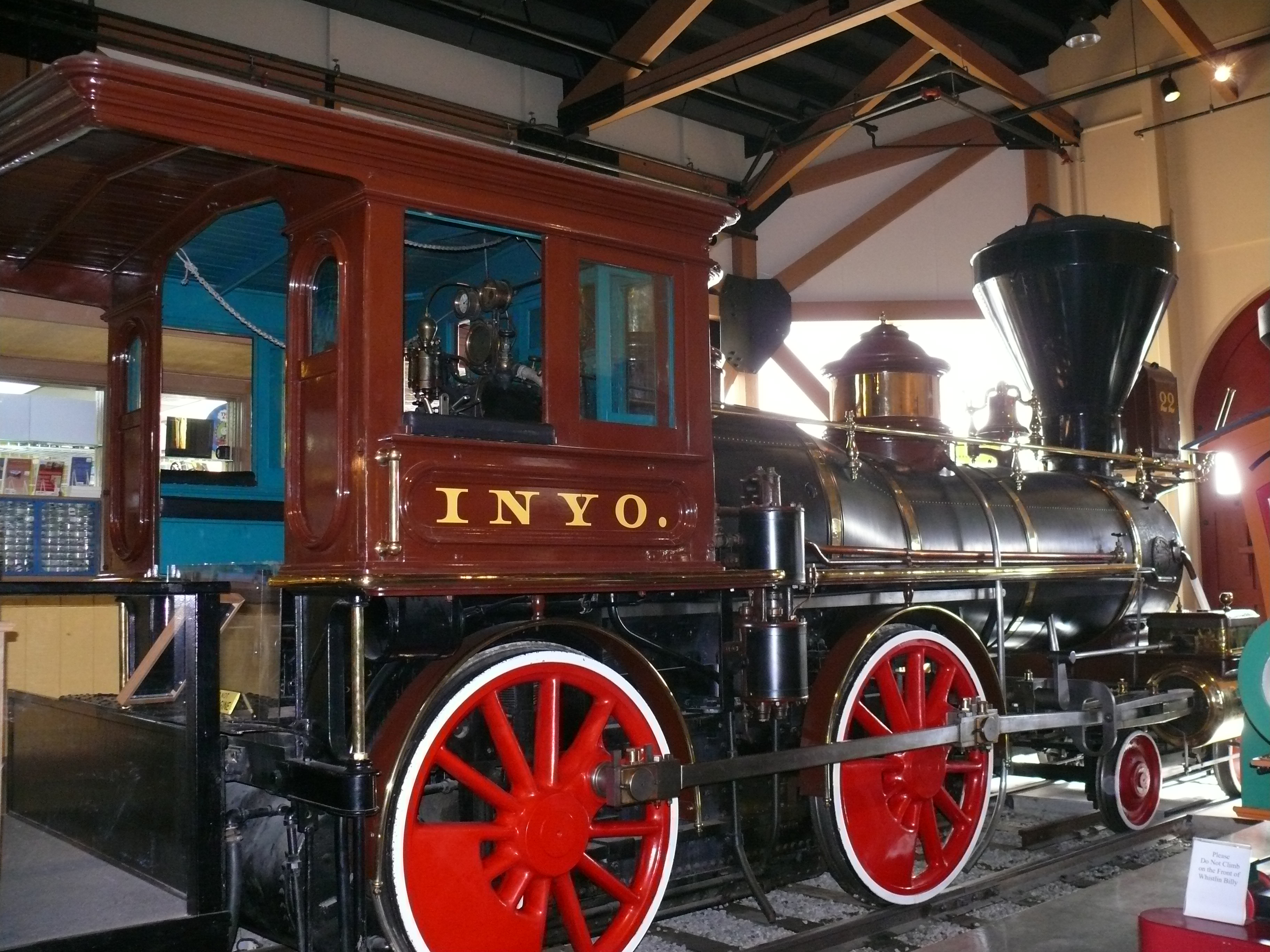 4-4-0 "American" locomotive "Inyo" located at the Nevada State Railroad Museum in Carson City, Nevada